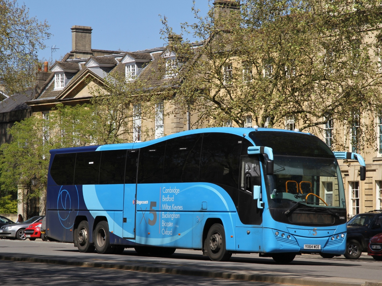 A Stagecoach East coach on route X5 in St Giles, Oxford. The coach is a Volvo B11R with Plaxton Elite body, registration mark YX64 WCE, fleet number 54302. In the background are (right to left) 14, 15 & 16 St Giles.